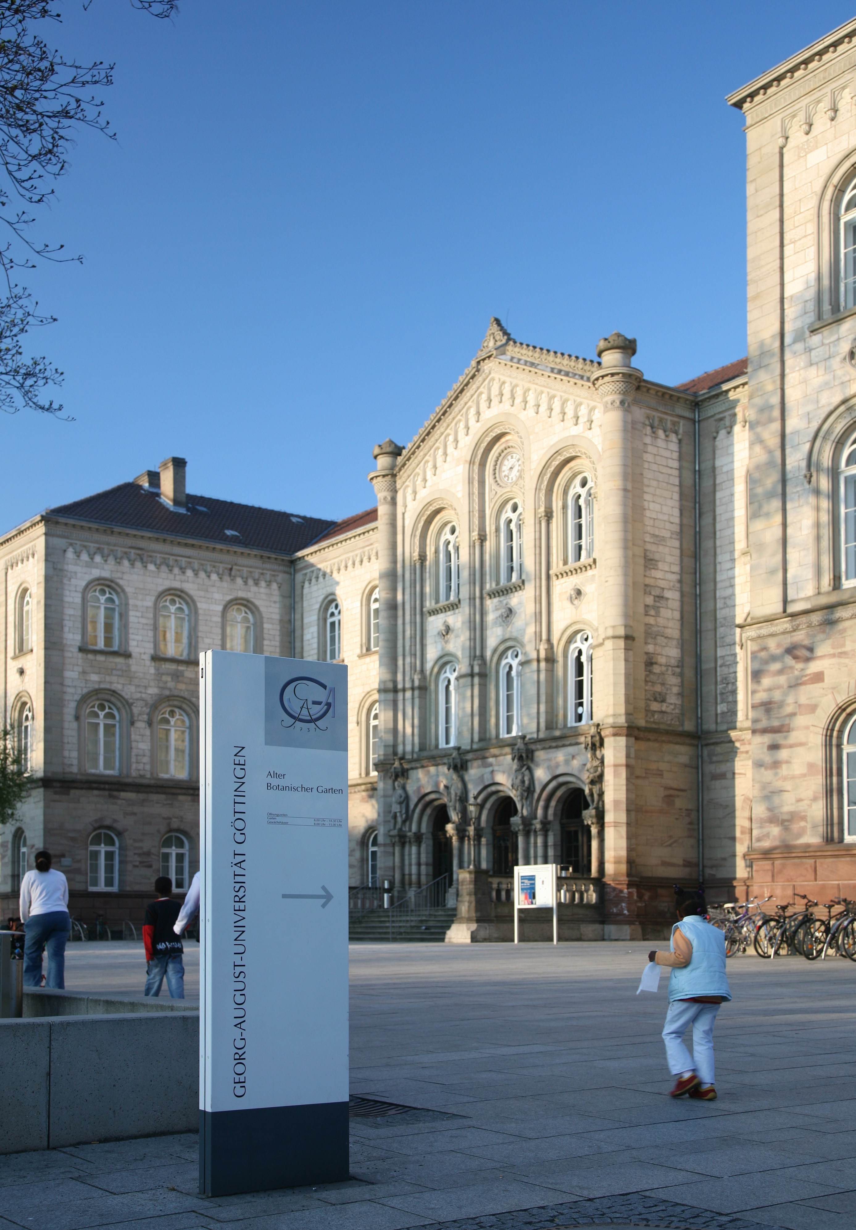 In front of the old Auditorium hall near the botanical gardens, Göttingen, Germany